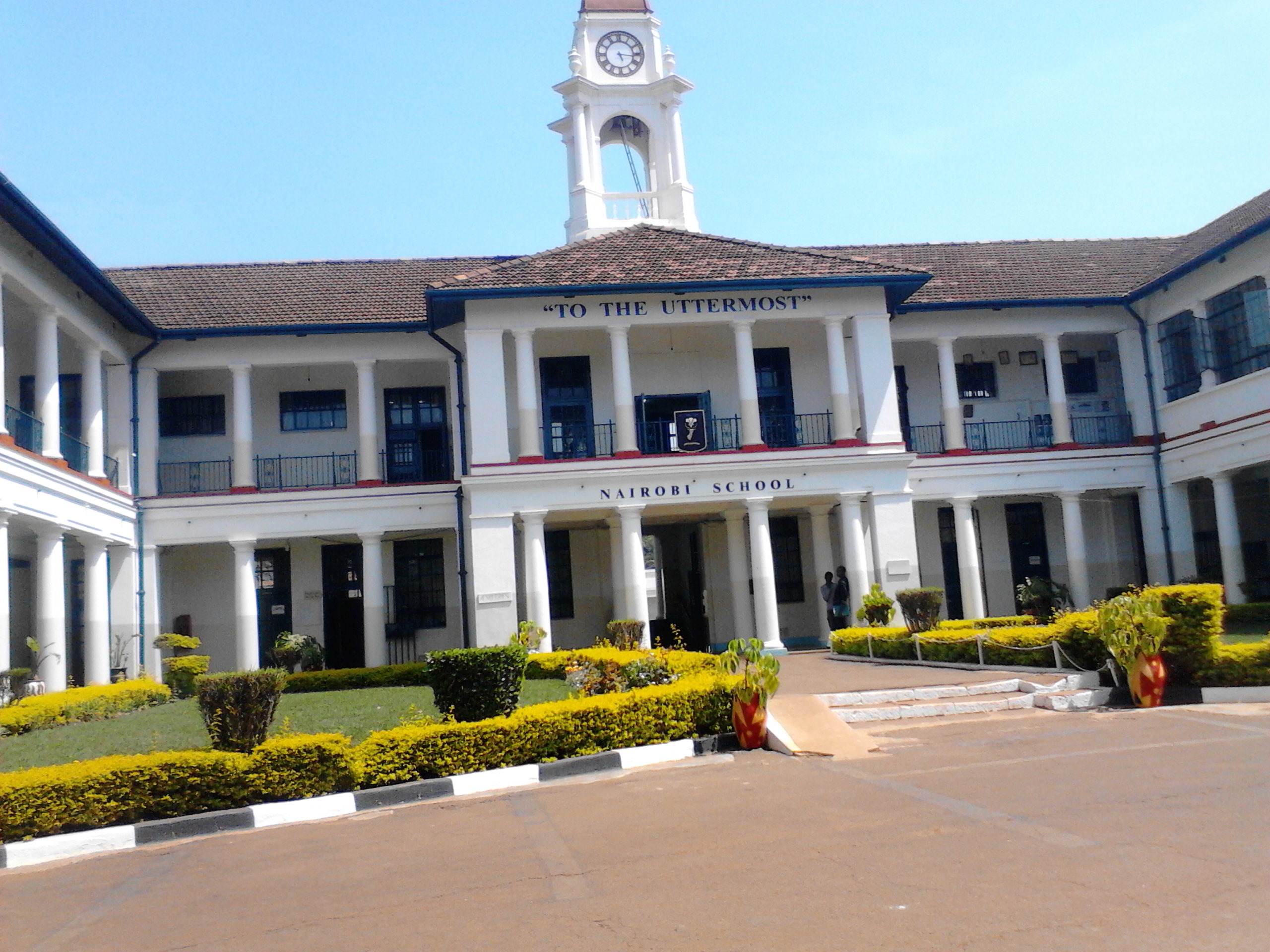 Nairobi school today